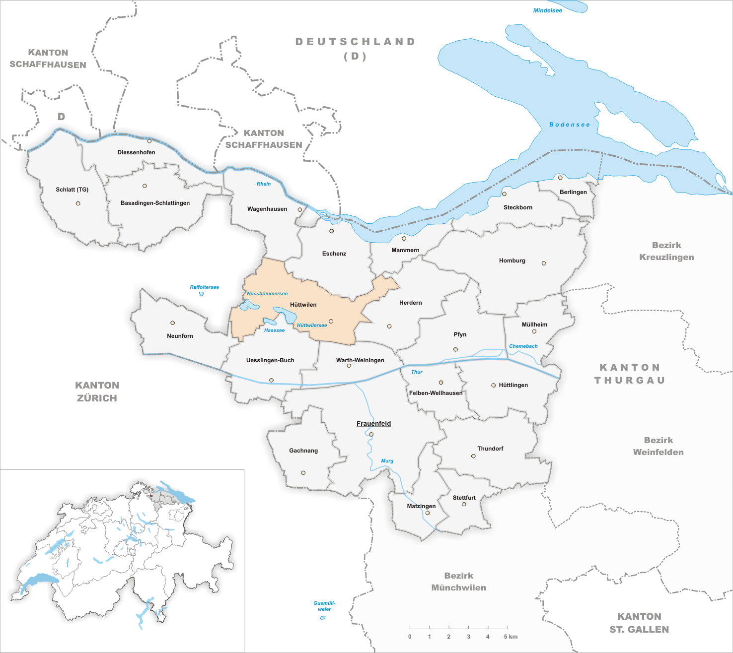 Municipality Hüttwilen